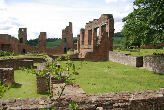 Bradgate House, near to Newton Linford, Leicestershire, Great Britain. Looking from the east wing towards the west wing. In its 17th century heyday, the east wing was used as family living quarters whereas the west wing was opened up for important guests including William III in 1696.